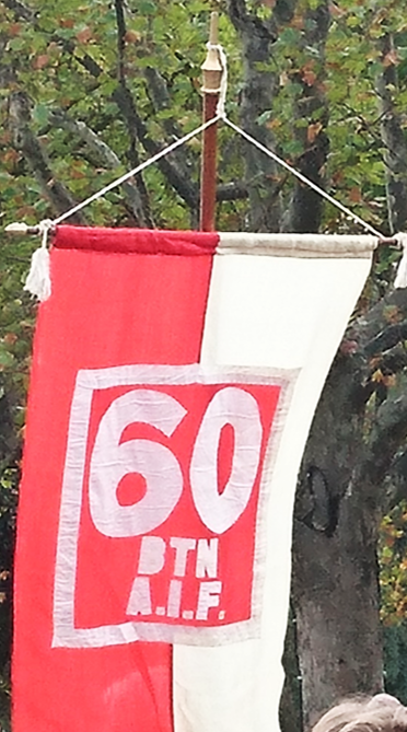 cloth banner vertical rectangle divided red beside white with writing "60 BTN A.I.F"